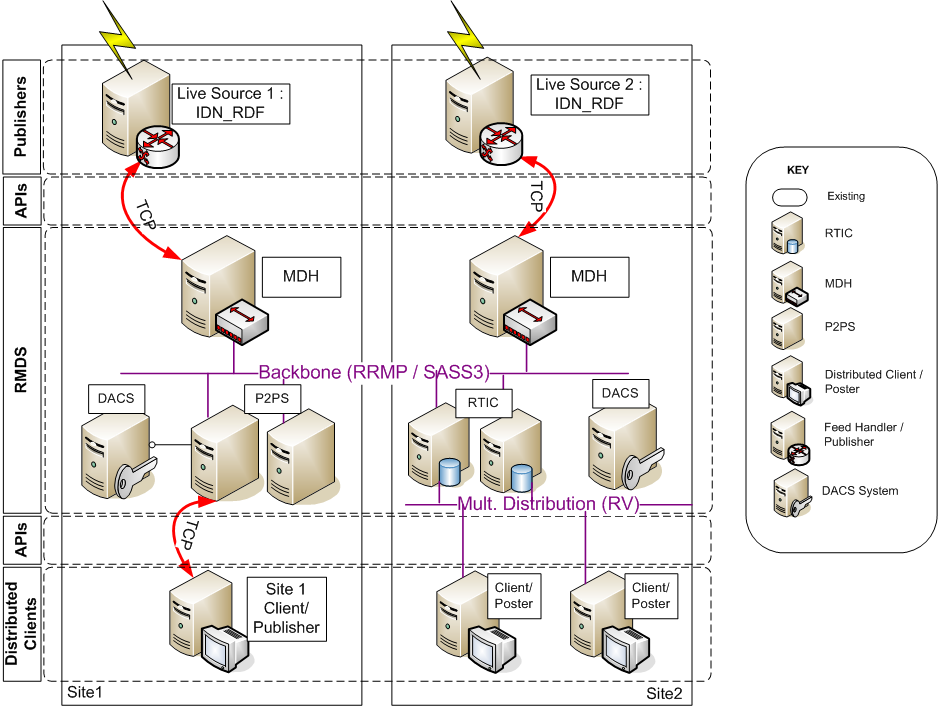 RMDS System Overview